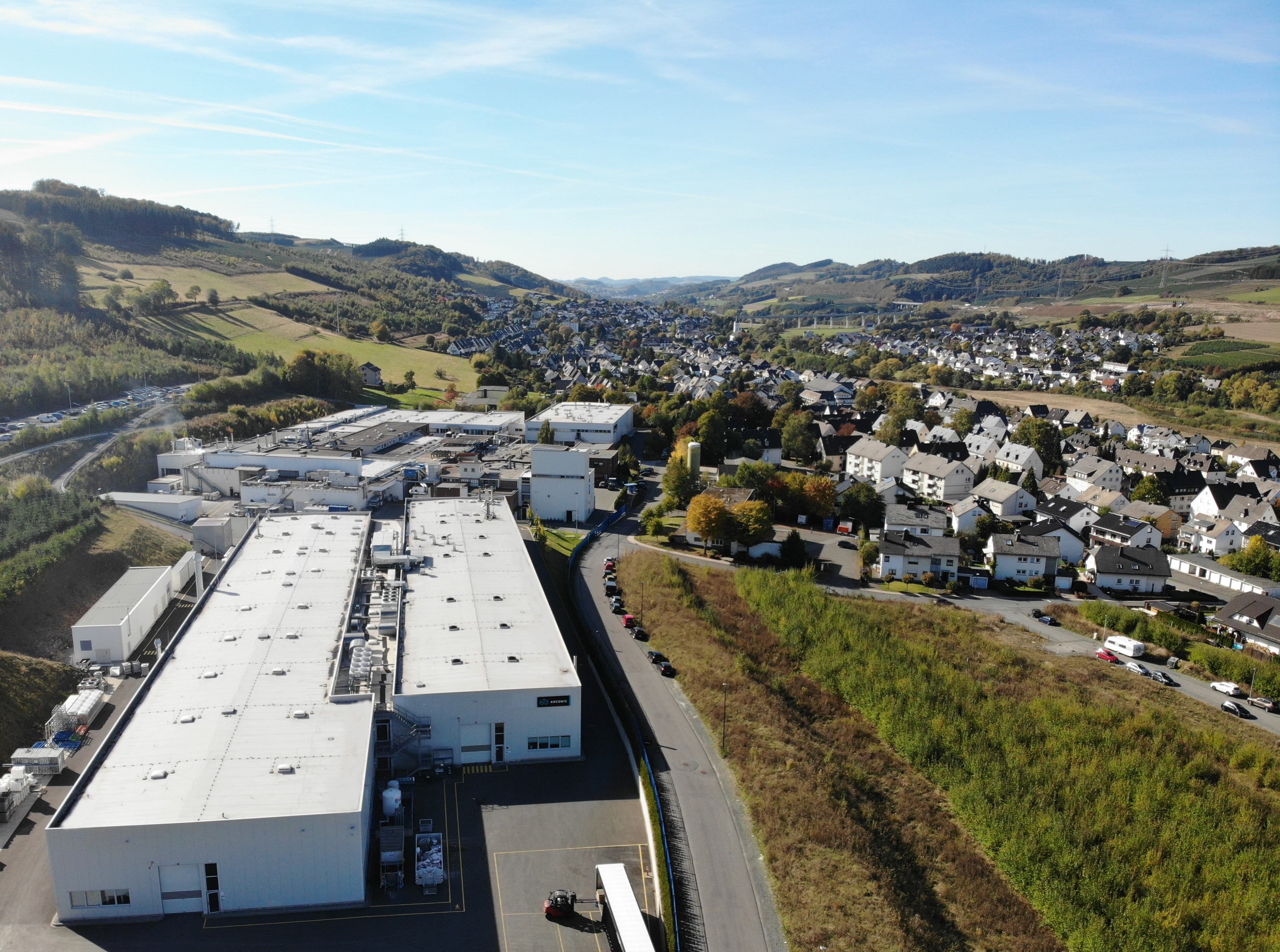 Luftbild Arconic Bestwig